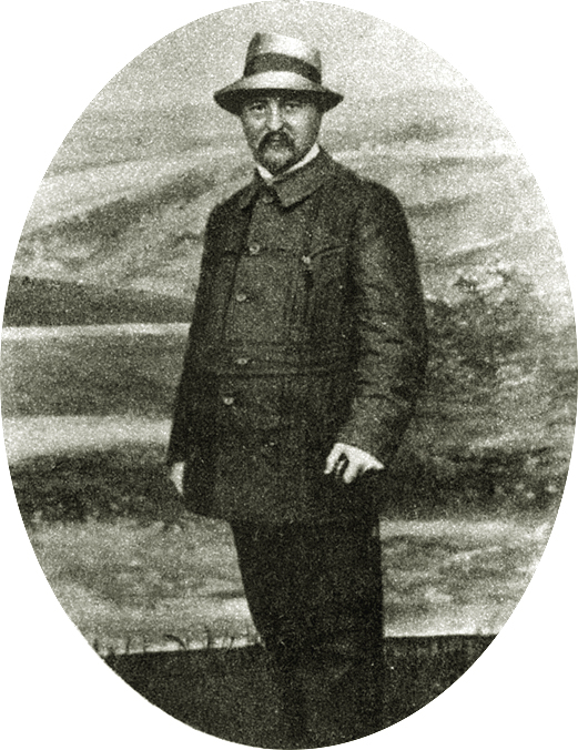 the russian poety Pyotr Pertsov